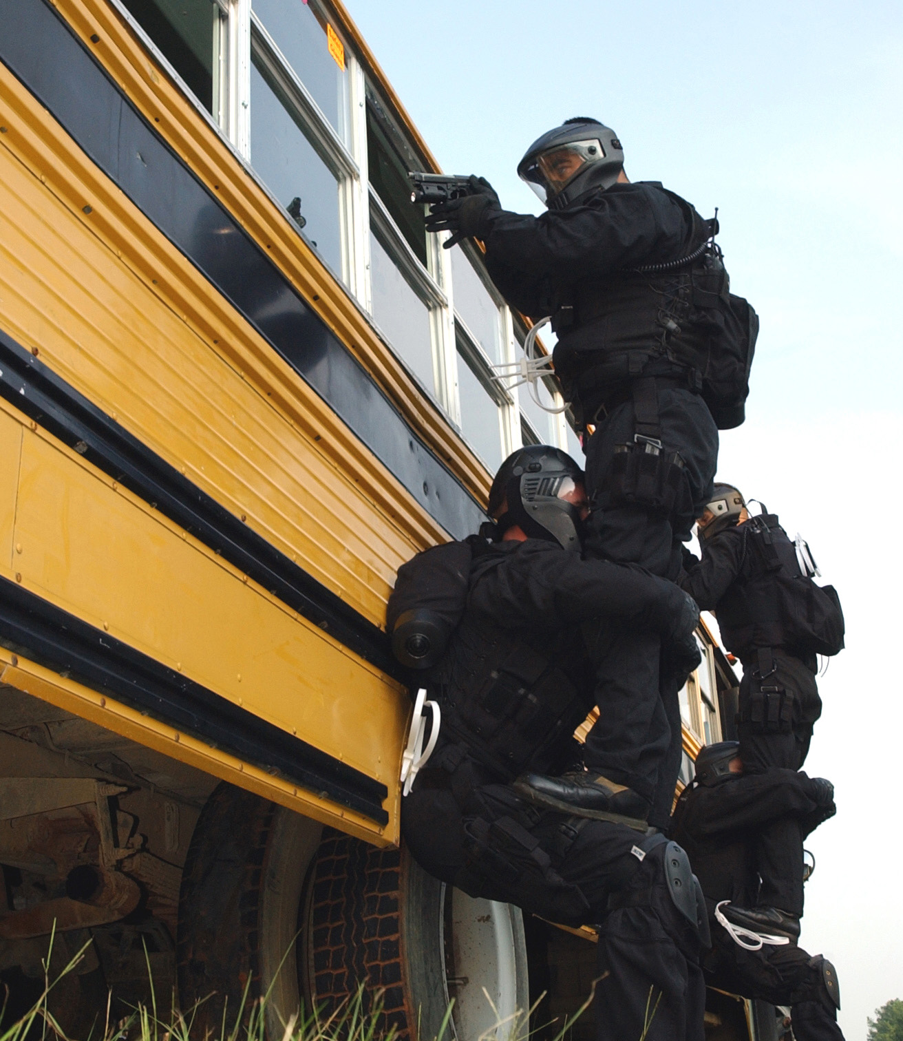 United States Army 42nd Military Police Detachment's Special Reaction Team pull security on a bus.